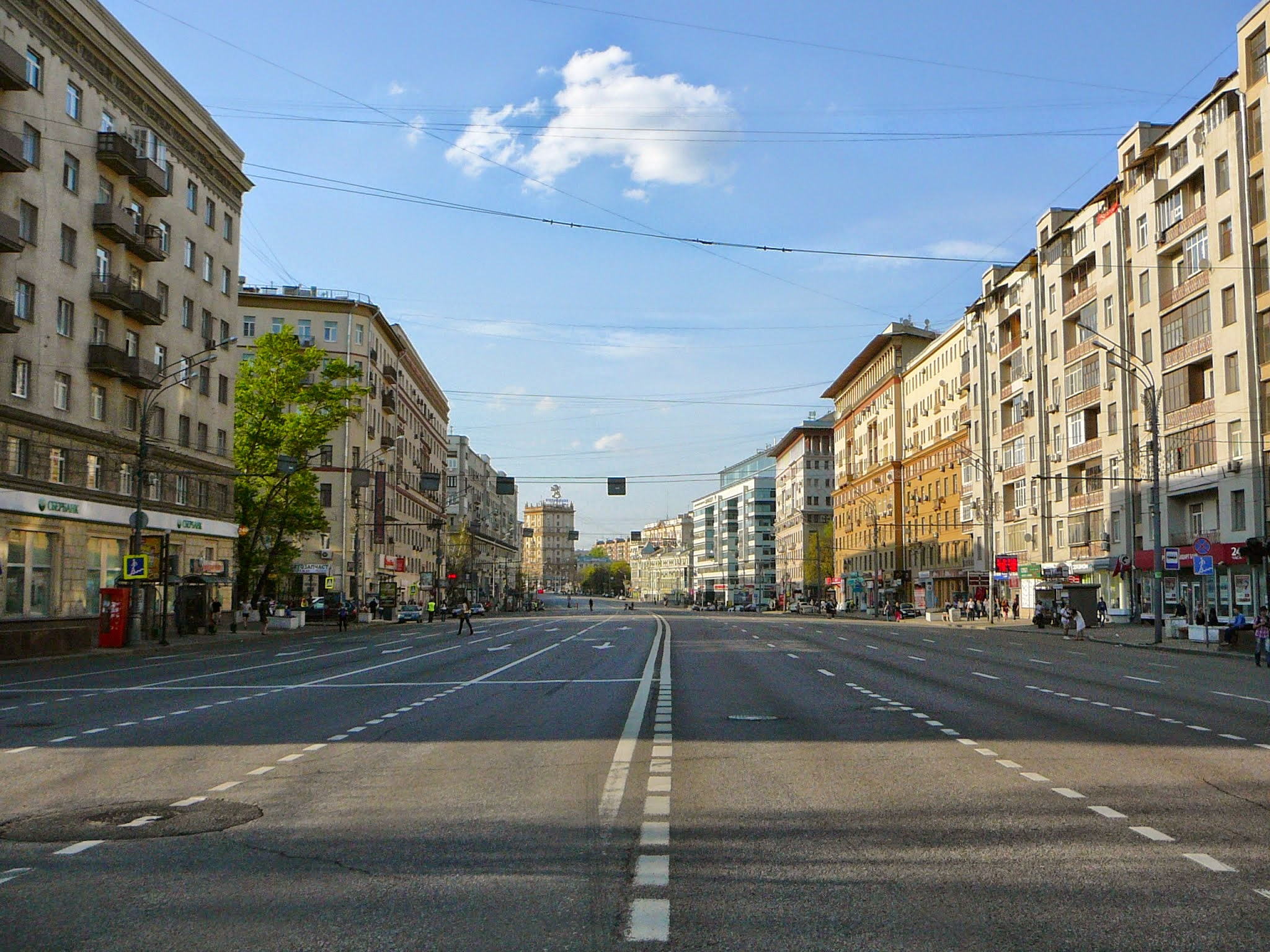 Basmanny District, Moscow, Russia